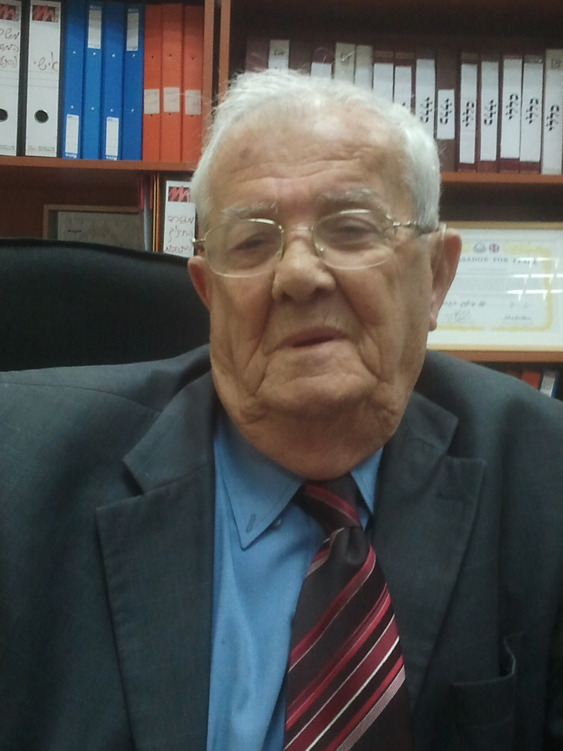 Amal Nasser el-Din, is a Druze Israeli author and former politician who served as a member of the Knesset for Likud between 1977 and 1988.